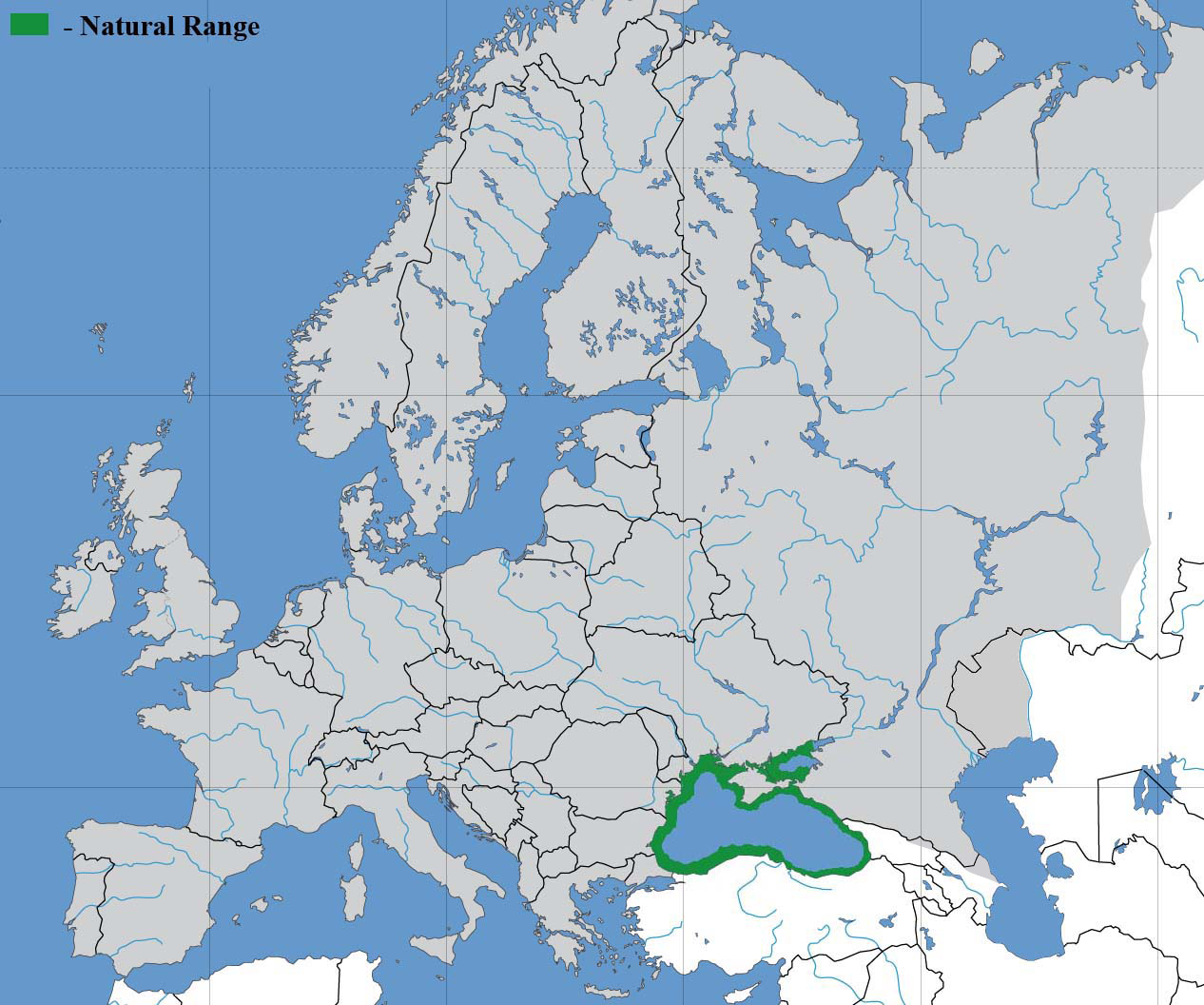 The range of the Marine Tubenose goby (Proterorhinus marmoratus)